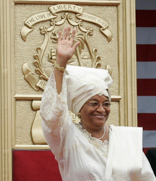 Liberian President Ellen Johnson Sirleaf waves to the audience at her inauguration in Monrovia, Liberia.